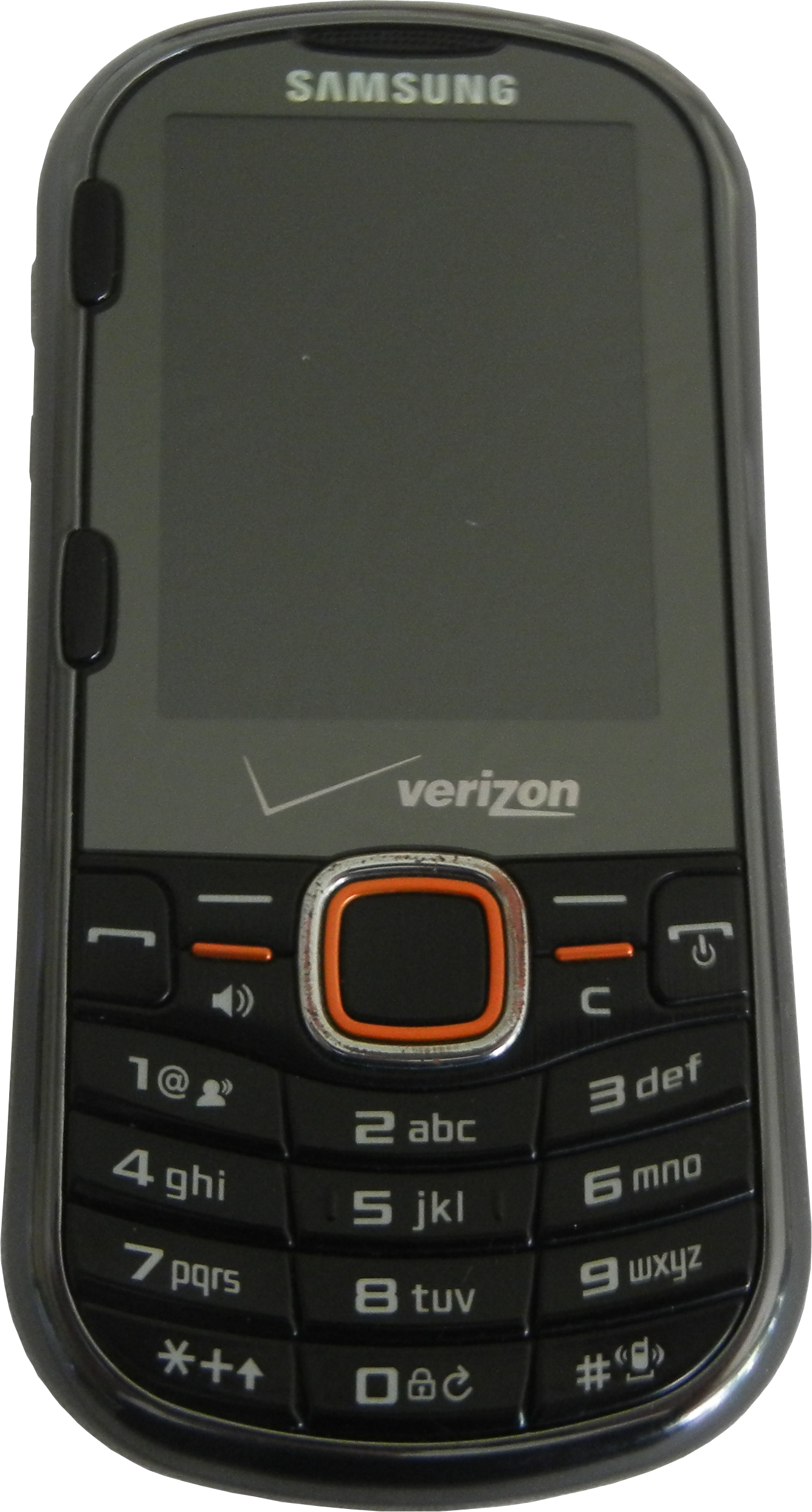 Samsung Intensity II SCH-U460 Phone Grey